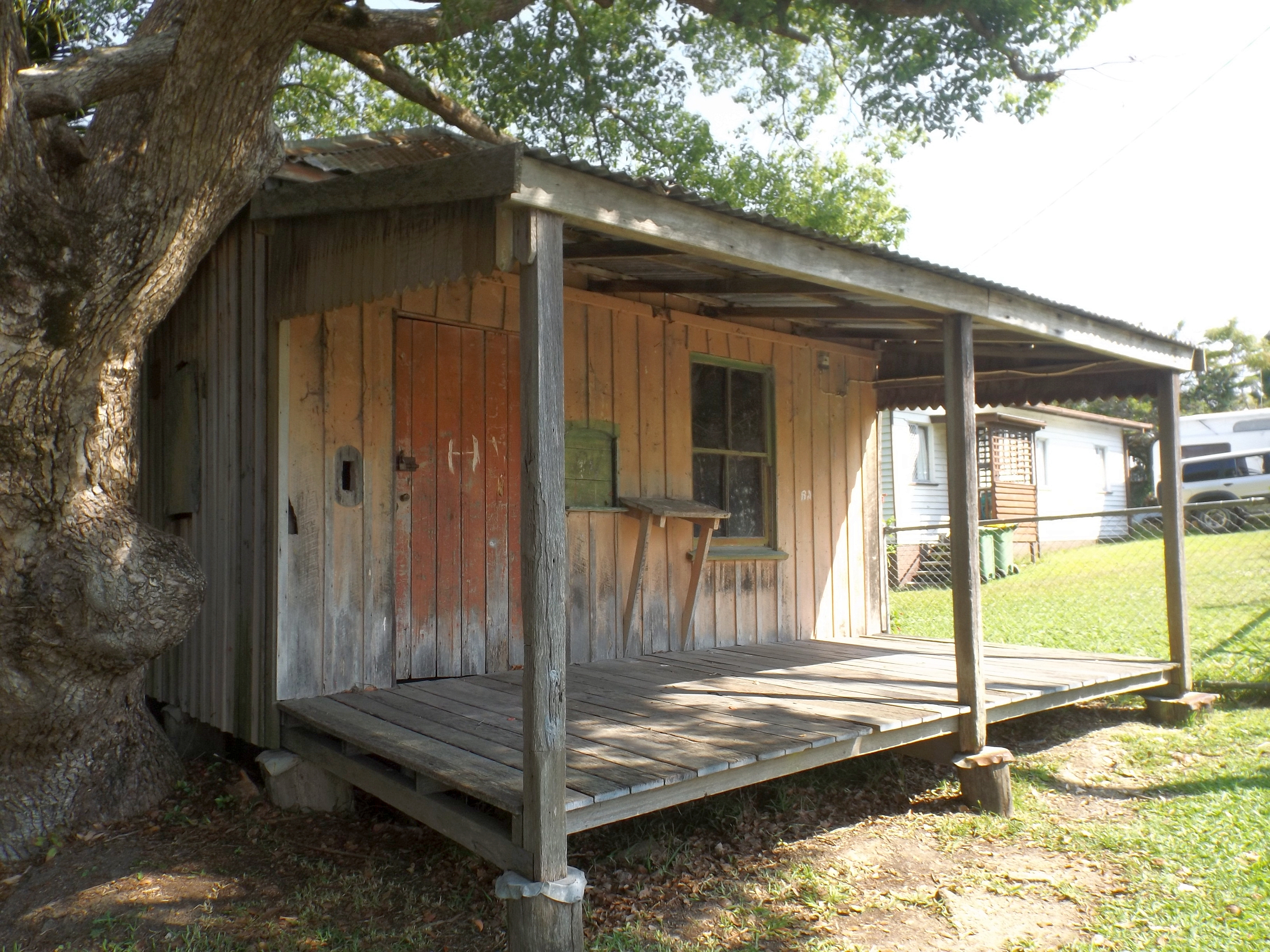 Photo of Tallebudgera Post Office at Tallebudgera, Gold Coast City, Queensland, Australia.